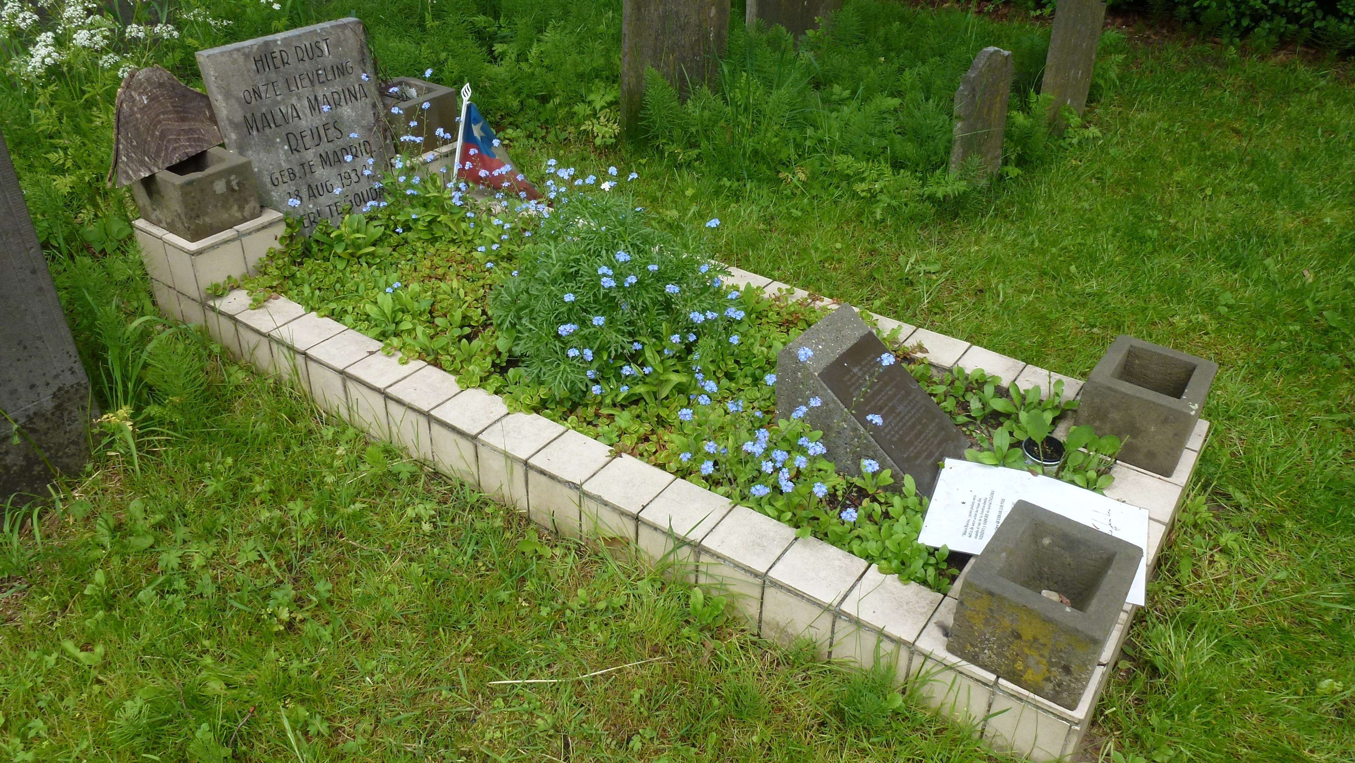 Grave of Malva Marina Reyes, daughter of Pablo Neruda, at the Oude Begraafplaats, Gouda, the Netherlands